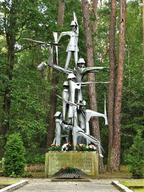 Statue of the fallen polish soldiers, during German Invasion of Poland in 1939. War cemetery of 800 polish soldiers from Poznan Army and Pomorze Army, located in Kampinoski Forest, Granica village near Kampinos, mazowieckie voivodeship, Poland. Coordinates: 52°17'21.93"N 20°26'56.05"E